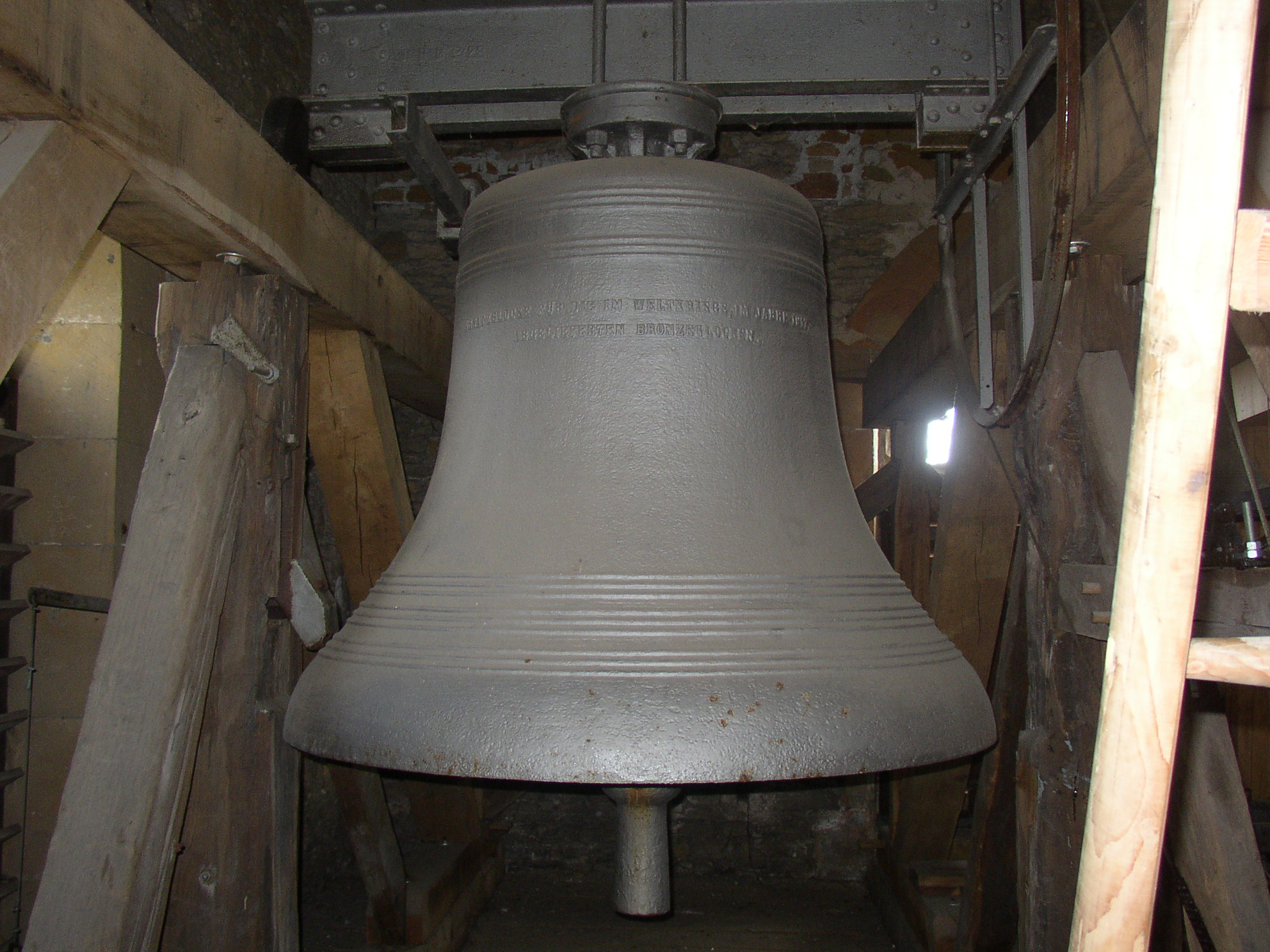 Big bell in bell tower of St. Johannes church in Halle (Westfalen), county of Gütersloh, Germany